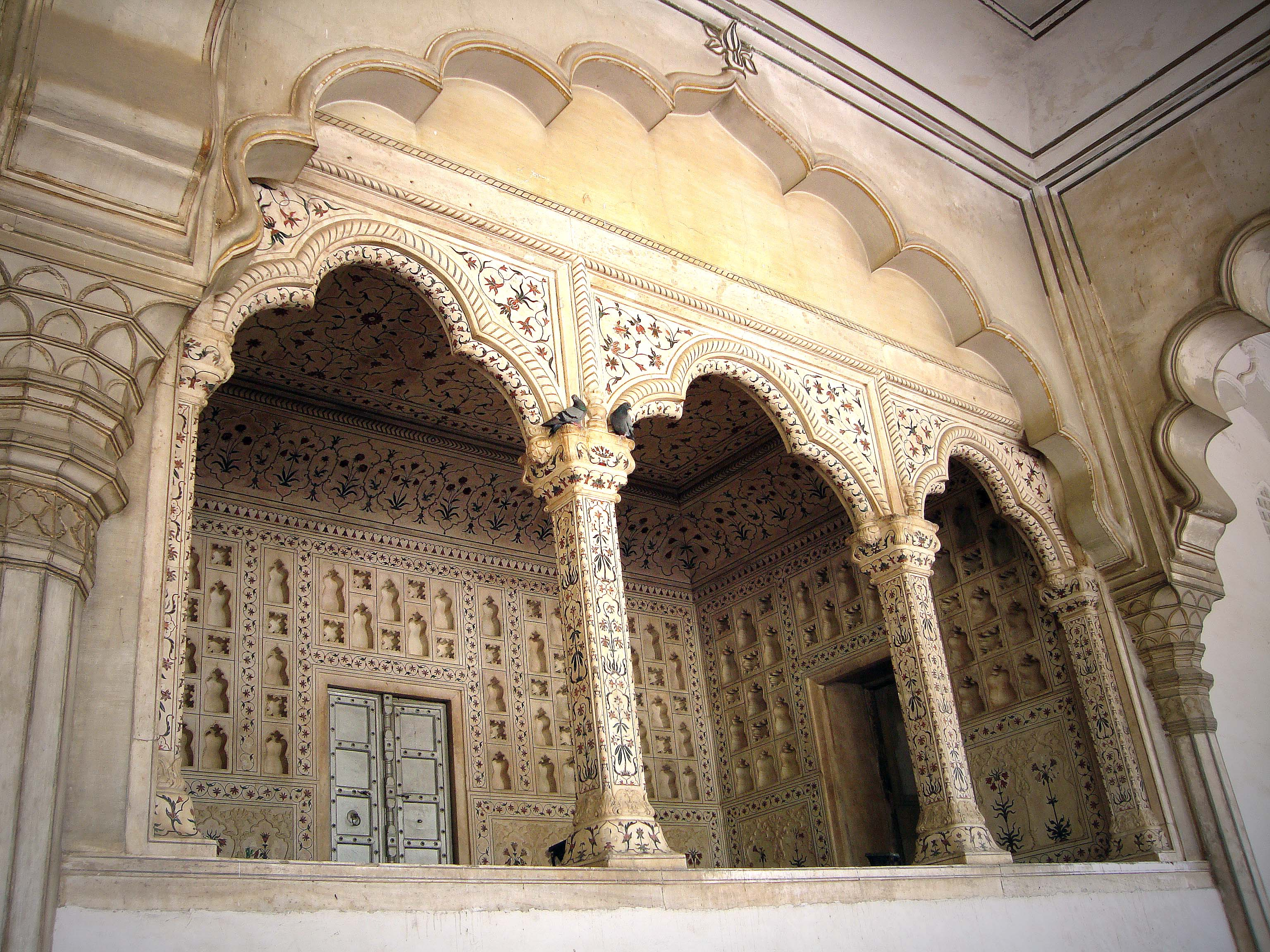 Agra Fort: Diwan-i-Am Quadrangle.